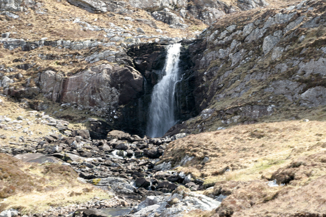 The Eas Creag an Luchda. The Creag an Luchda Waterfall (Eas in Gaelic).